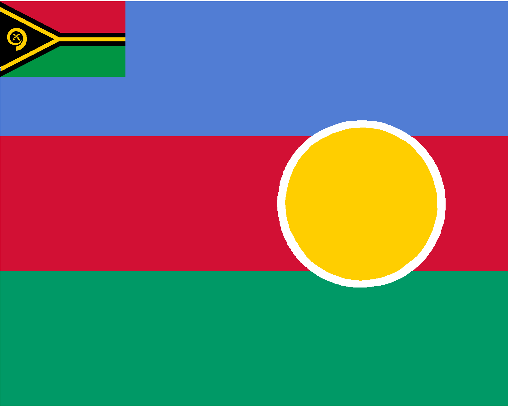 Flag of Shefa Province, Vanuatu. Modification of by Ninane.